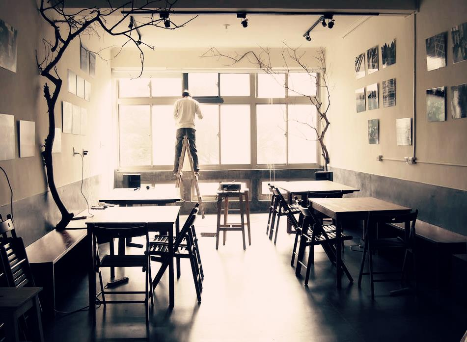 Changee Zhongshan Coworking Space